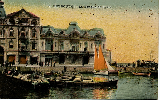 Ottoman Bank Beirut Branch, 1920. SALT Research Ottoman Bank Archives Osmanlı Bankası Beyrut Şubesi, 1920. SALT Araştırma Osmanlı Bankası Arşivleri